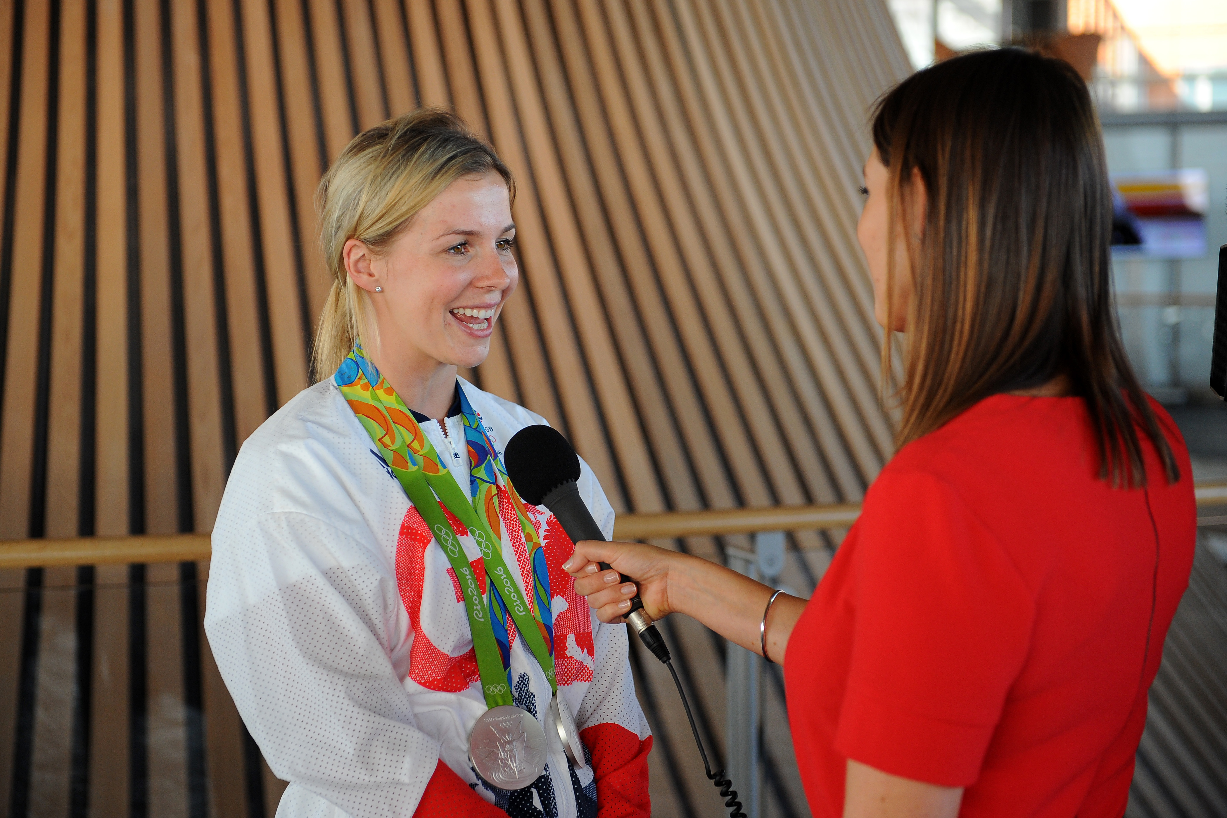 Becky James, a Welsh racing cyclist at the Rio 2016 Homecoming Celebration for Welsh Olympians and Paralympians at the Senedd in Cardiff